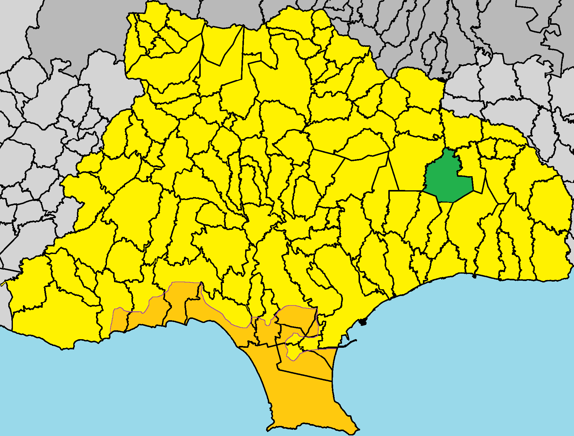 Prastio (Kellaki) in Limassol District.